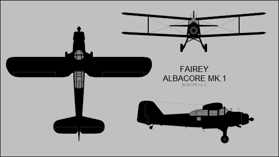 3-view silhouettes of the Fairey Albacore Mk.1